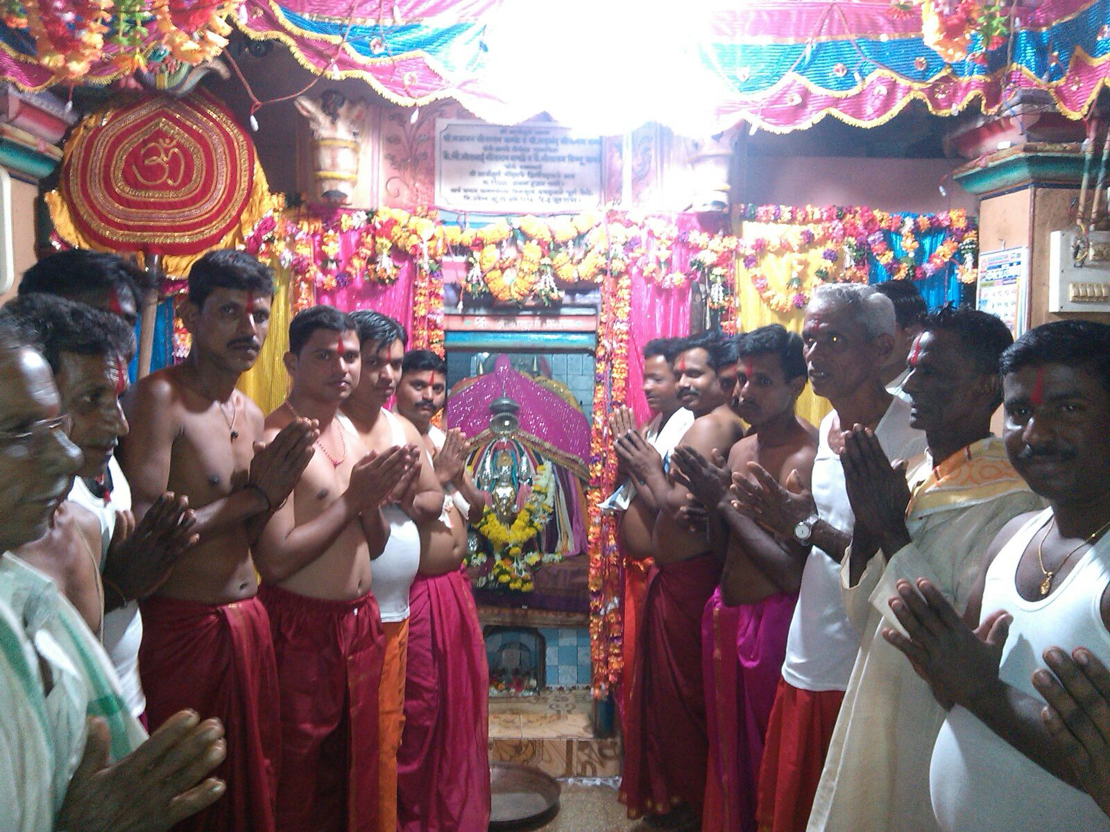 Aryadurga devi